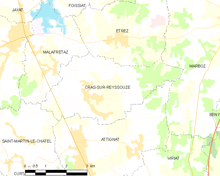 Map of French commune: Cras-sur-Reyssouze Map commune FR insee code 01130.png